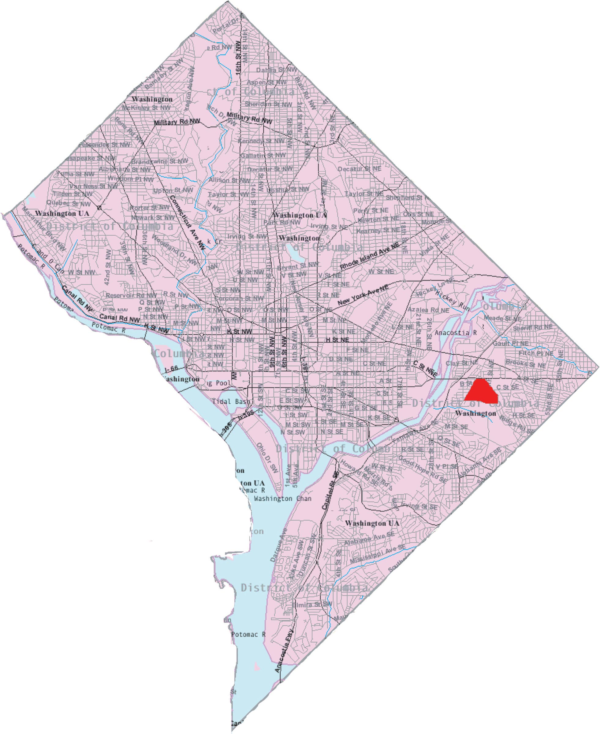 This image is a modified version of a self-generated reference map from the U.S. Census Bureau's American Factfinder at by Wikipedia user Msclguru.